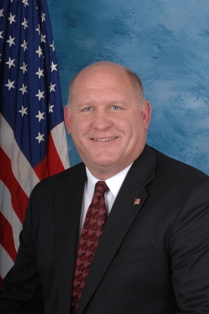 Glenn "G.T." Thompson, member of the United States House of Representatives from Pennsylvania's 5th congressional district